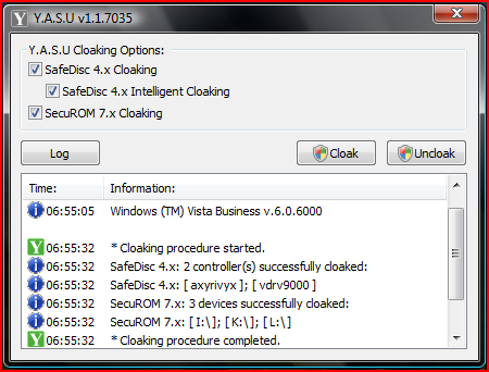 YASU Screenshot